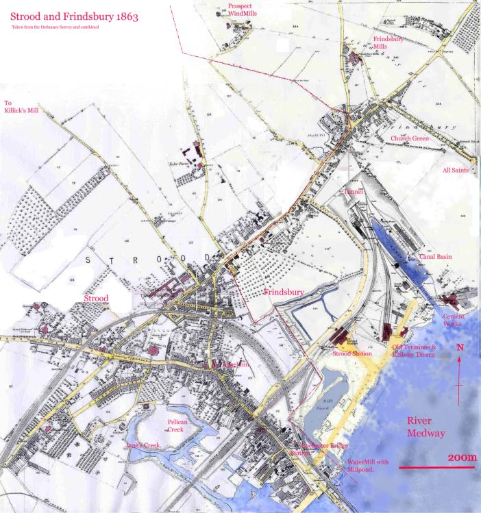 Amalgam of Strood and Frindsbury 1863 OS XIX 2 1st Edit, Hand coloured with line showing division between Frindsbury